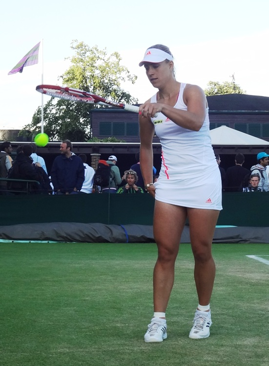 Angelique Kerber during Wimbledon 2012